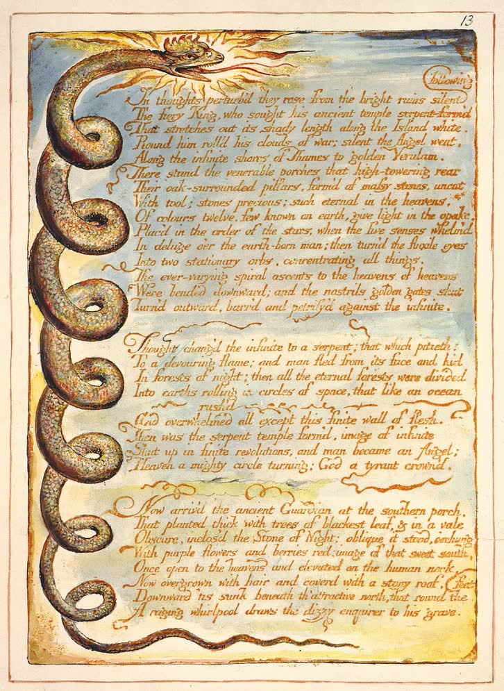 Europe a Prophecy, object 13 copy K, in the collection of the Fitzwilliam Museum, Cambridge University.